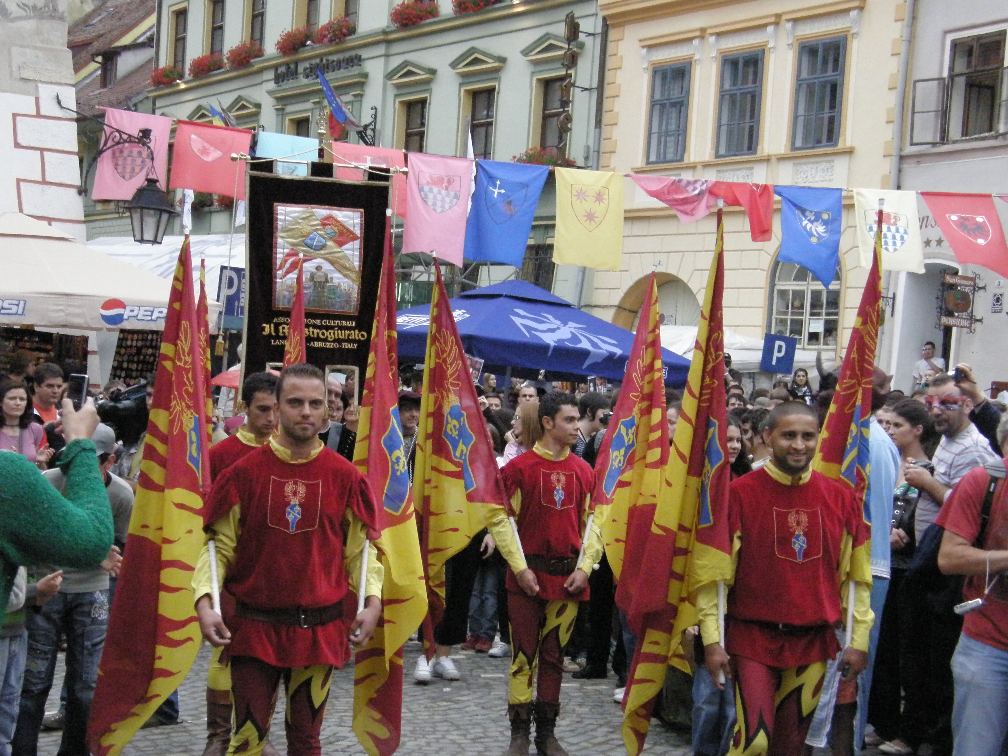 Sighişoara Festivala Medivala